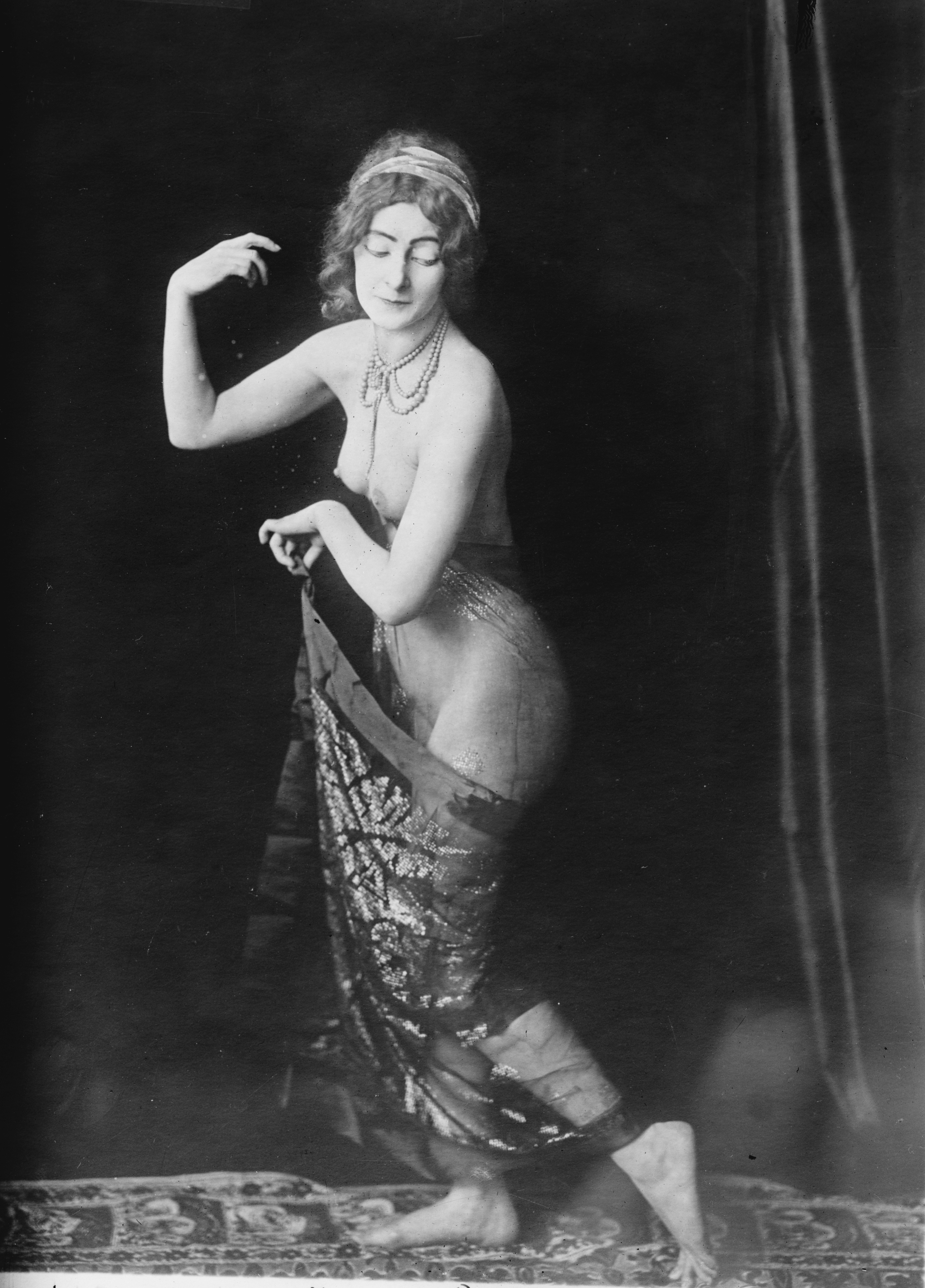 Adorée Villany in the "Dance of Phryne".